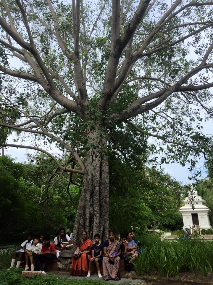 Sapling from the Mahabodhi tree planted in the year 1950